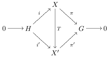 an extension